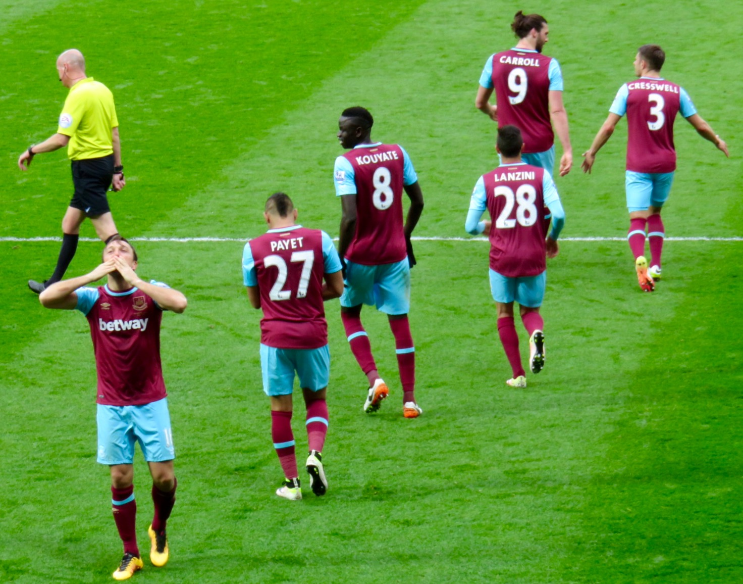 West Ham United player, Mark Noble (front) celebrates to supporters after scoring his second and West Ham's third goal against West Bromwich Albion at The Hawthorns.